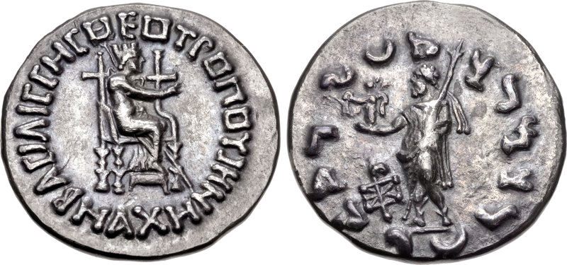 Machene, Queen of Maues. BACIΛICCHC ΘEOTPOΠOY MAXHNHC, Tyche, wearing mural crown “Rajatirajasa mahatasa Moasa” in Kharosthi